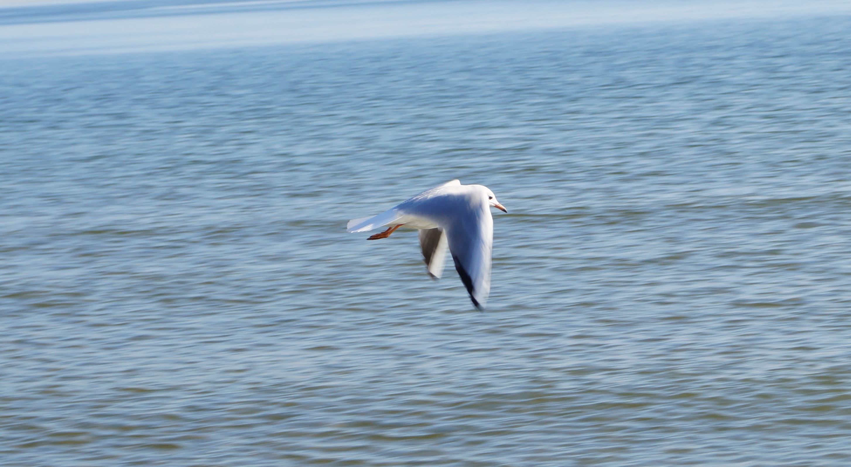 The making of this document was supported by Wikimedia Polska Association, within Wikigrant no. WG 2015-34. English | polski | +/− Mewa